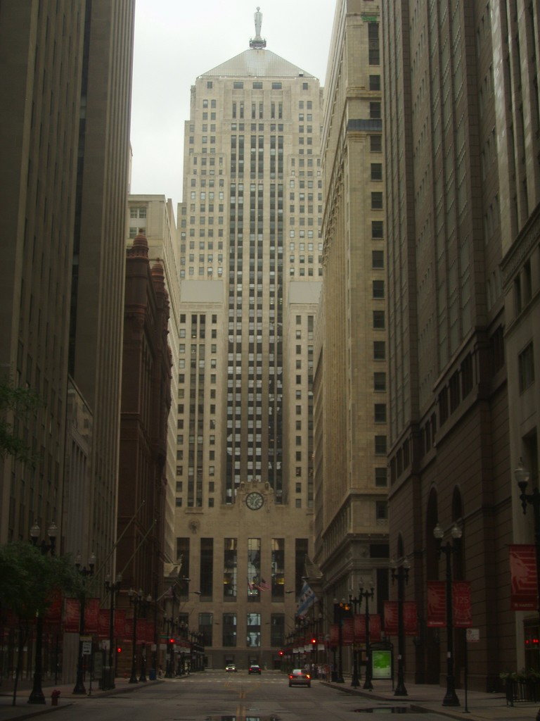 Looking down LaSalle Street towards the Chicago Board of Trade during the daytime.